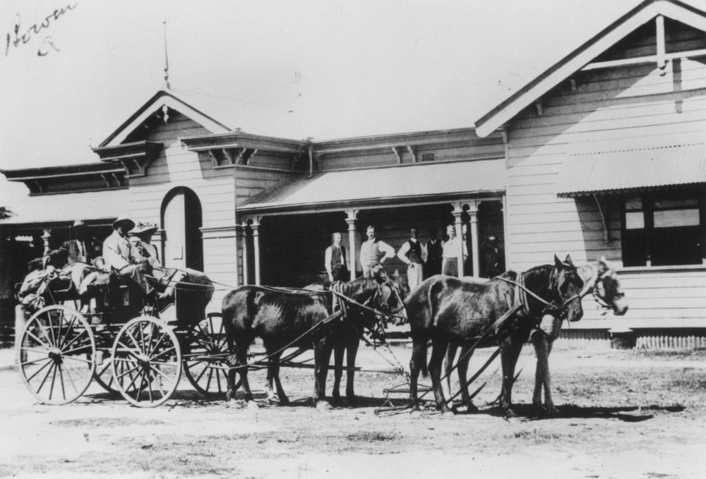 Bowen Post Office, 1908 Close-up of a buggy with four horses drawn up at Bowen Post Office. (Description supplied with photograph).